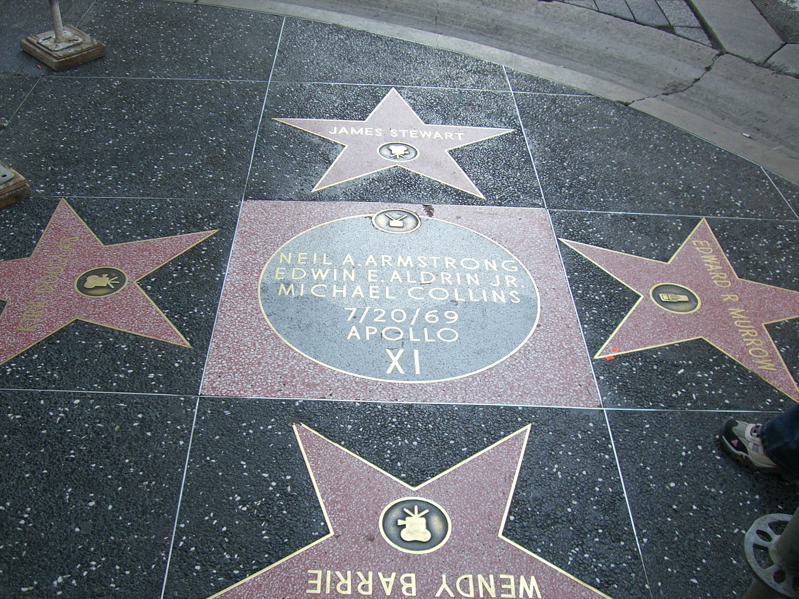 Hollywood Walk of Fame, Los Angeles, California, USA